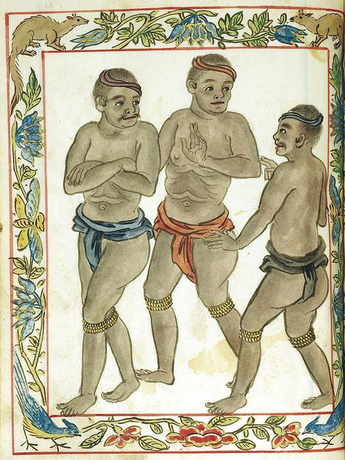 Native Commoners (men) of the Pre-hispanic Philippine Archipelago